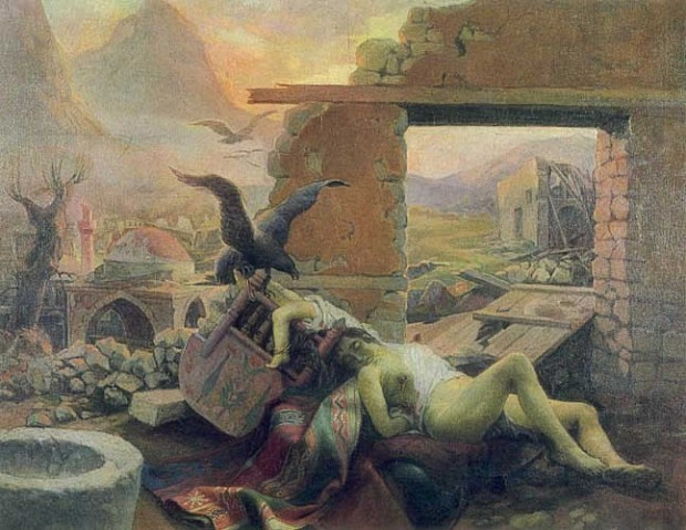 Hüseyin Avni Lifij "Kara Gün"